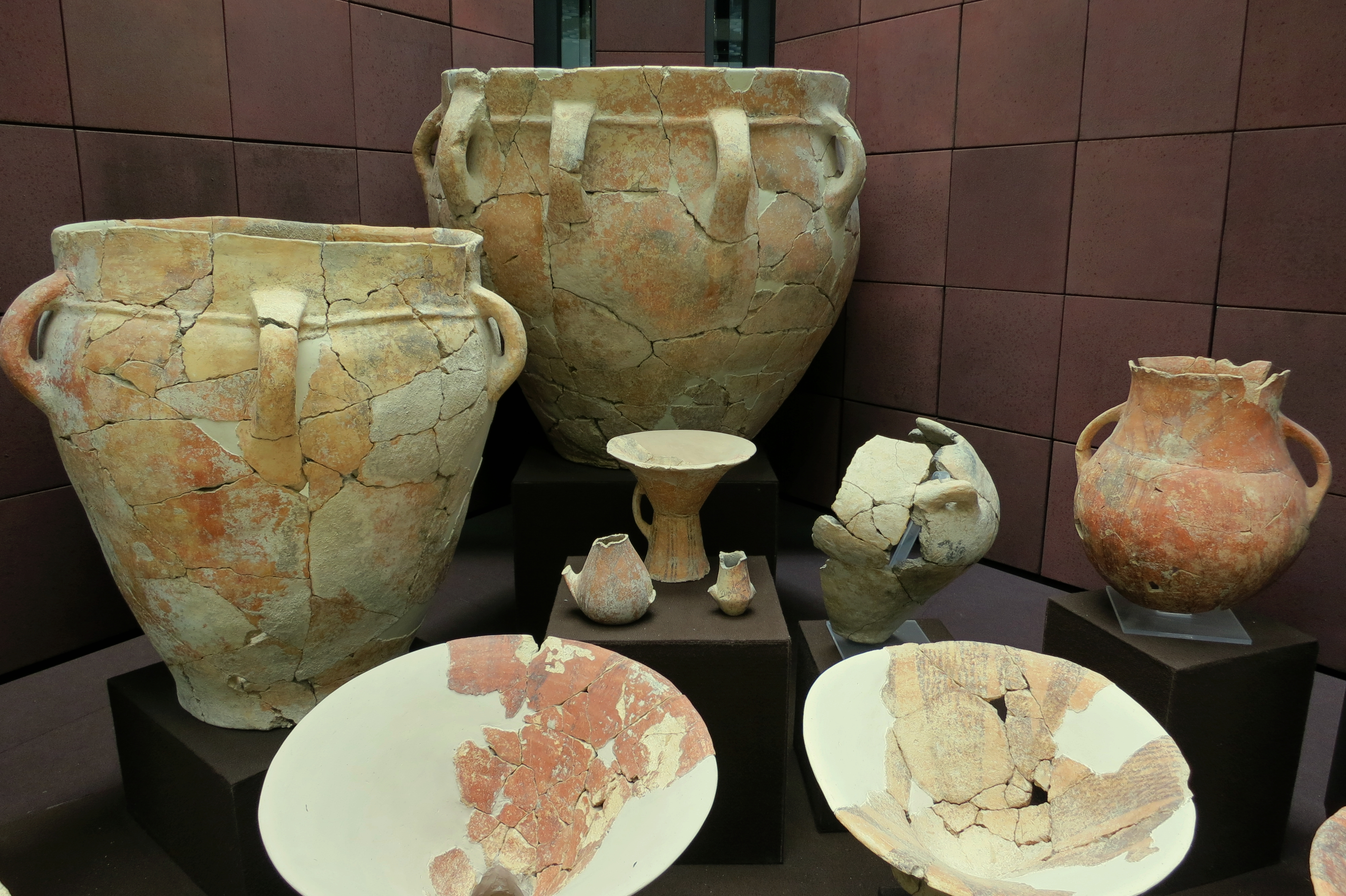 Pottery from a grave. Castelluccio. Sicilian Bronze Age. Archaeological Museum of Syracuse.